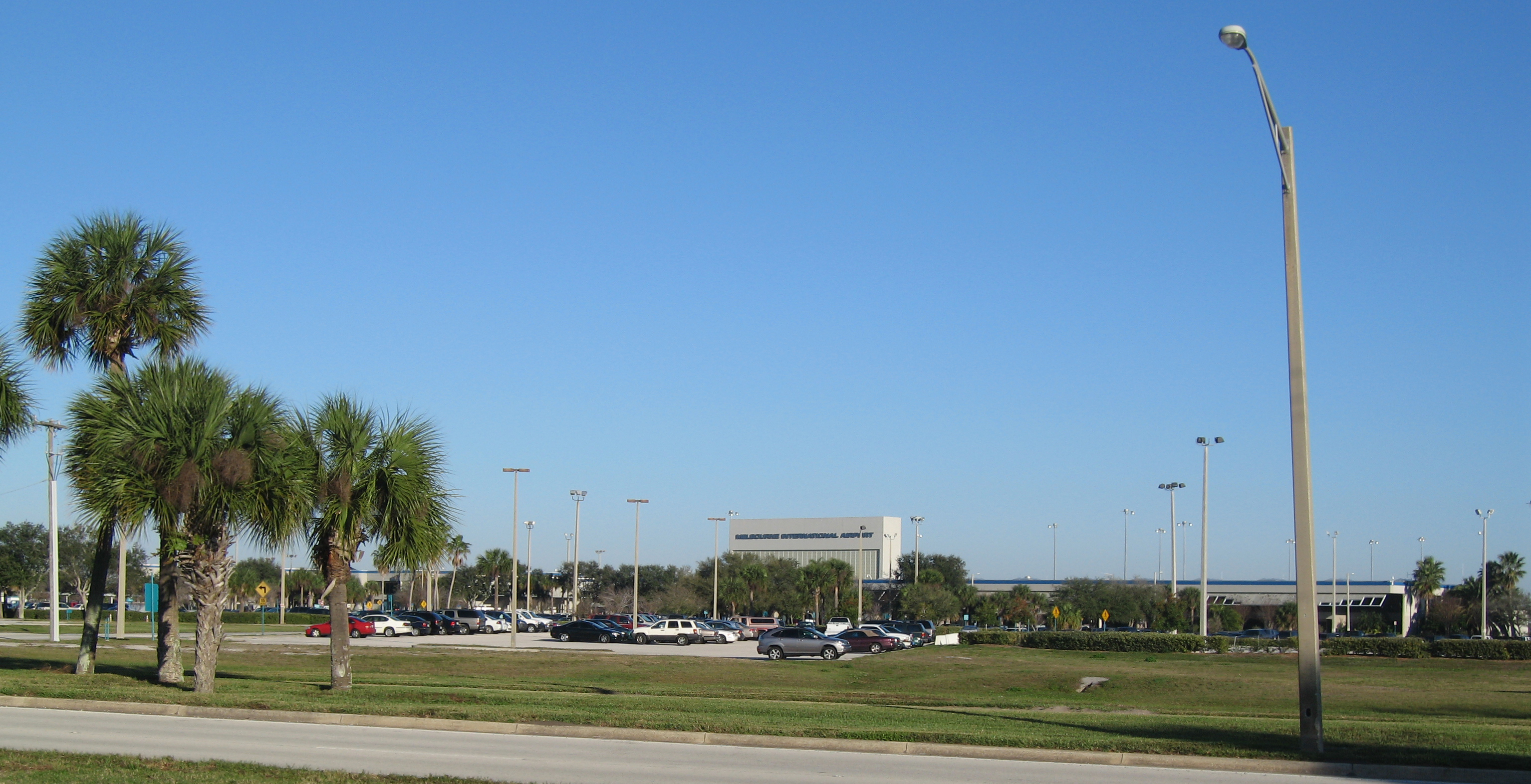 Front of Melbourne International Airport, One Terminal Parkway, Melbourne, Florida. Photograph taken from NASA Boulevard and shows front (south side) of airport.